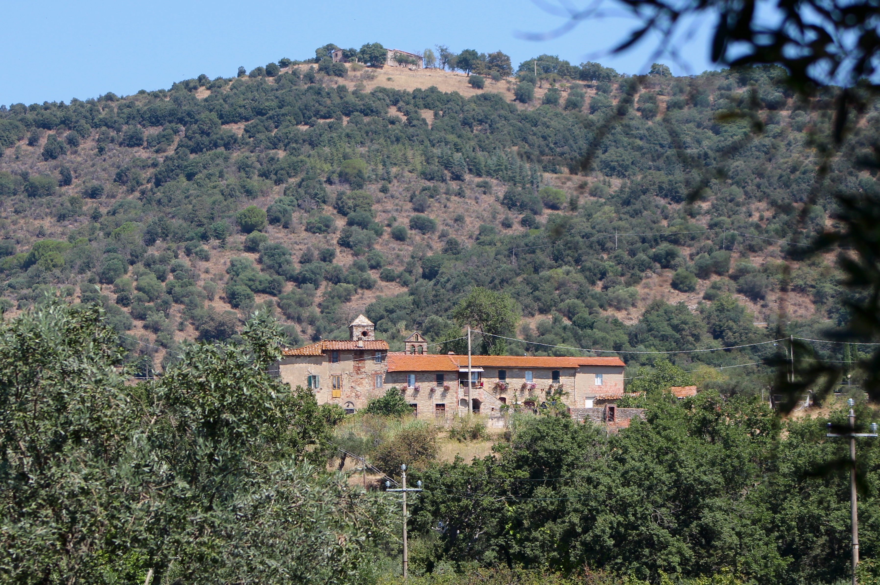 San Vito, hamlet of Passignano sul Trasimeno, Province of Perugia, Umbria, Italy